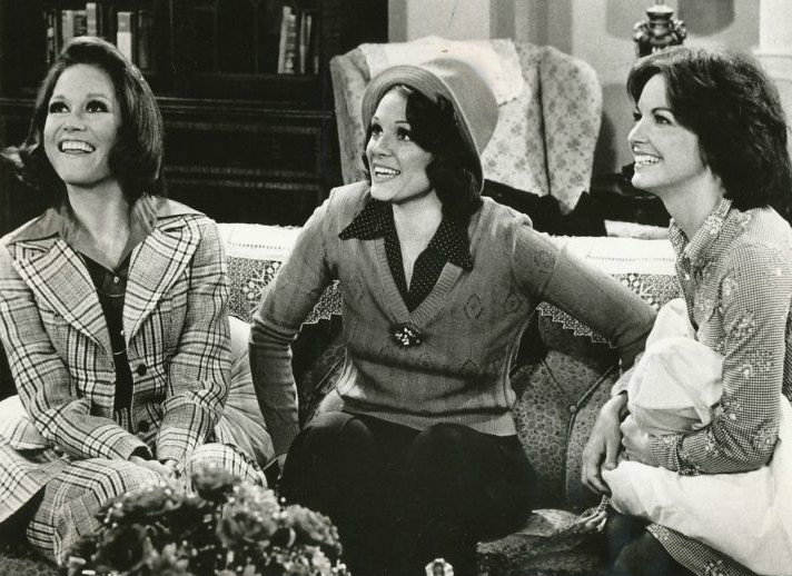 Publicity photo of Mary Tyler Moore, Valerie Harper and Liberty Williams from The Mary Tyler Moore Show. In this episode, Mary and Rhoda are in New York for Rhoda's youger sister's wedding.